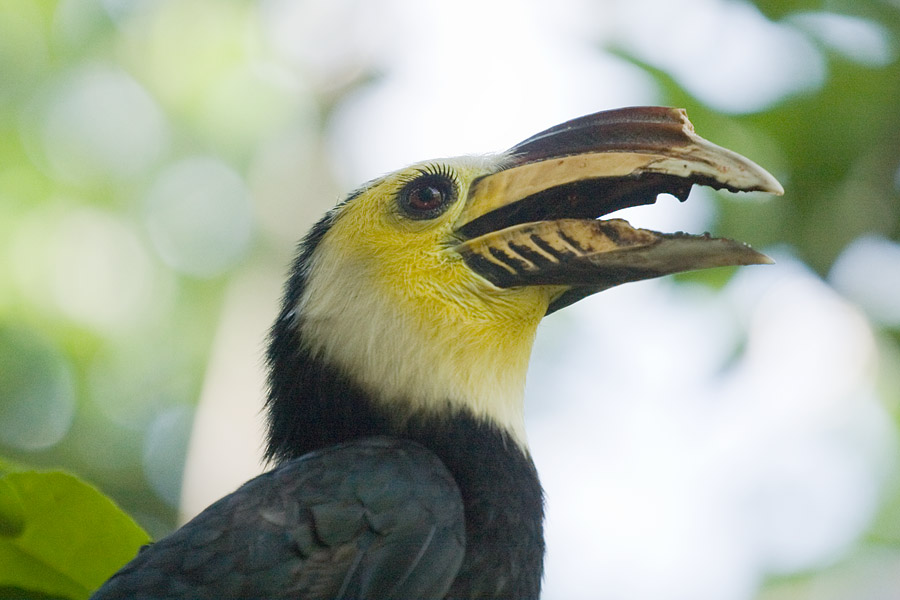 Sulawesi Tarictic Hornbill open his Mouth.